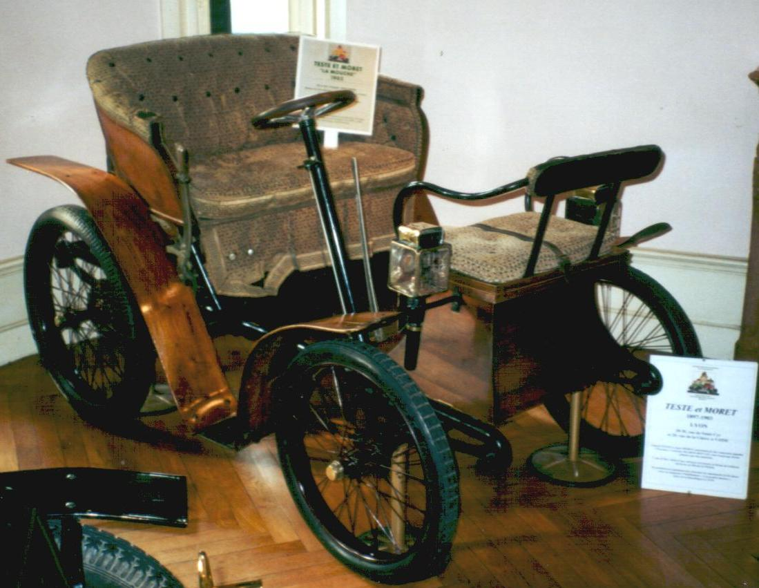 Teste & Moret 1902 (Country of origin: France)